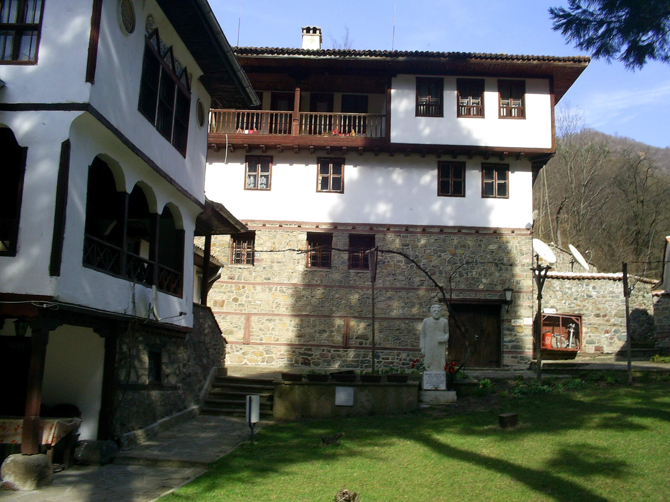 Monastery "The Seven Throns"; © 2006 Svilen Enev